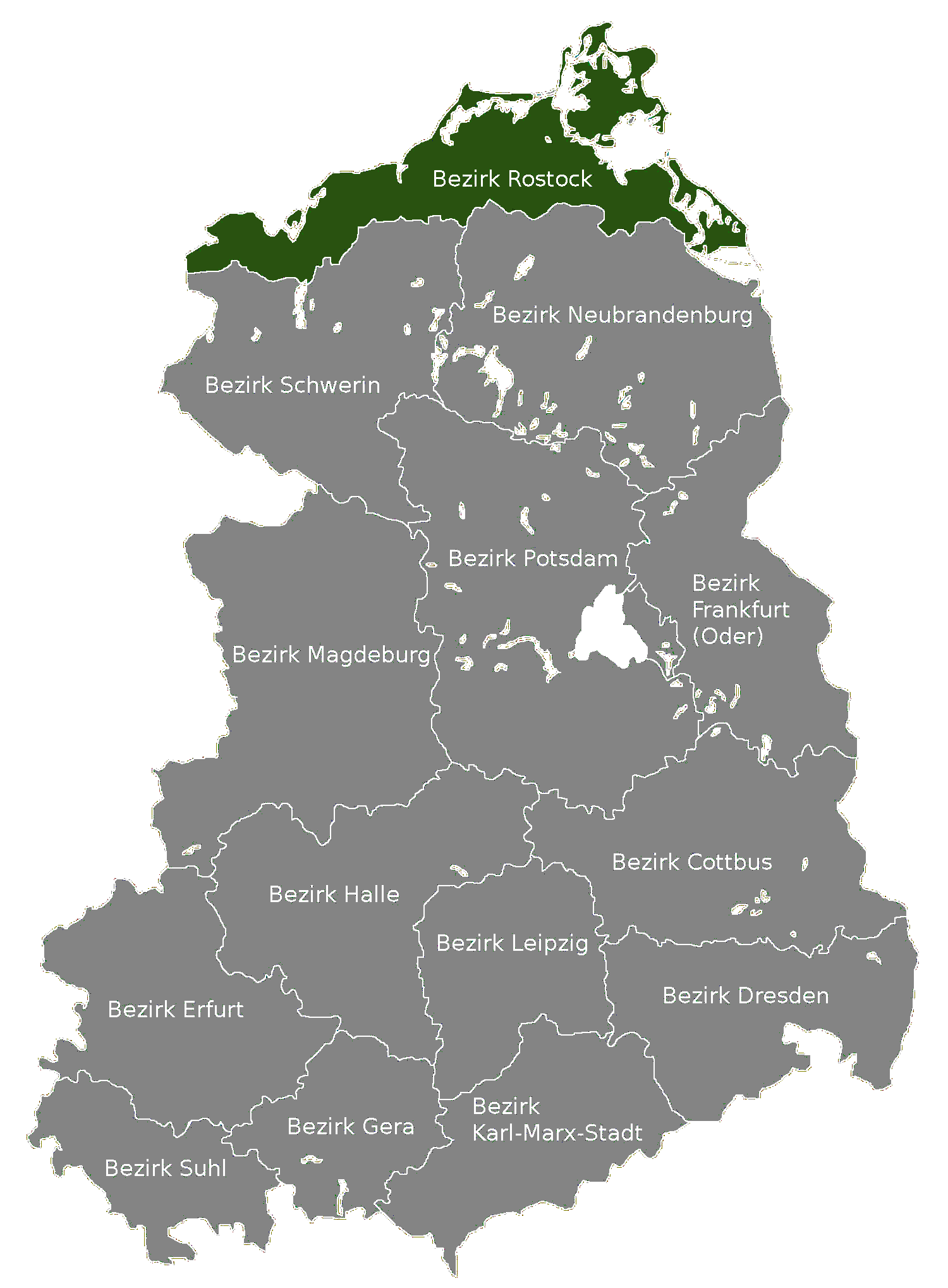 Map based on German Wikipedia